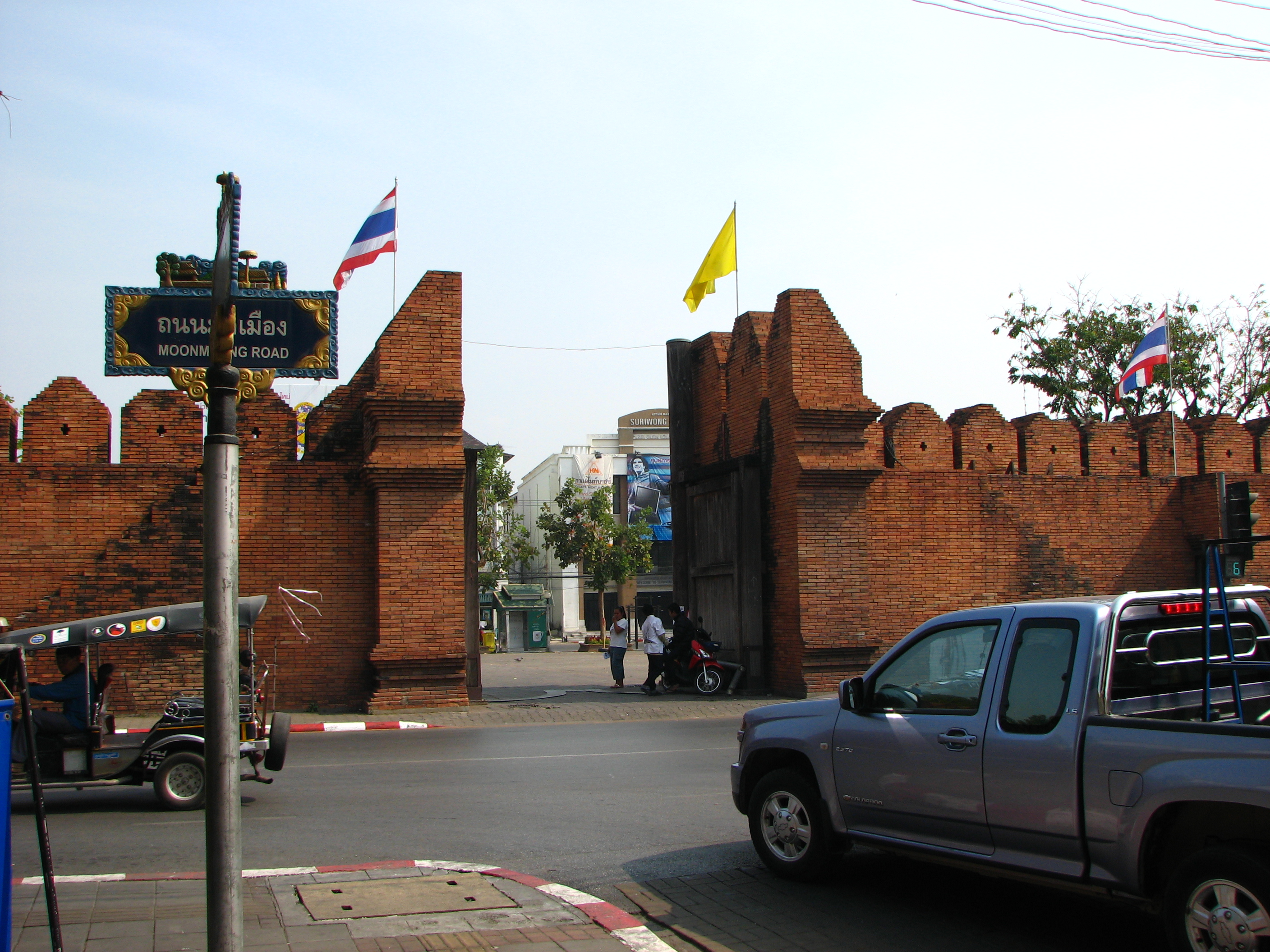 Tha Phae Gate of Chiang Mai